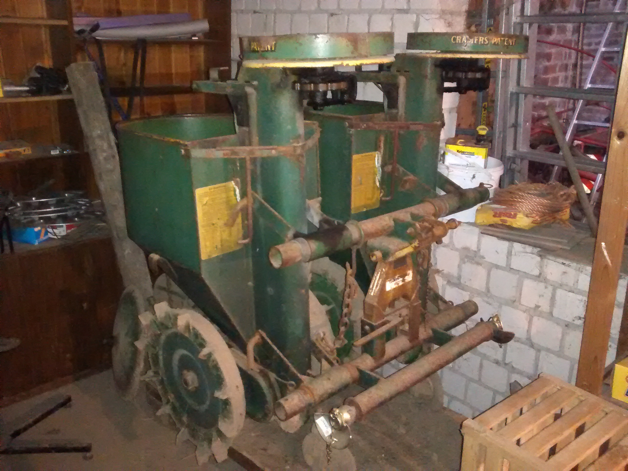 Marke: "Cramer"